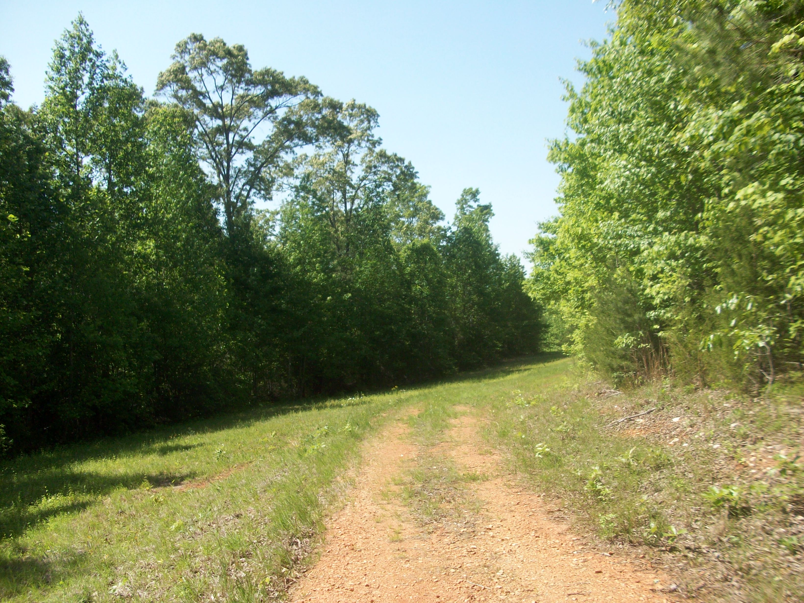 View looking towards the Triple C Rail Trail along the access trail in the James Ross Wildlife Reservation